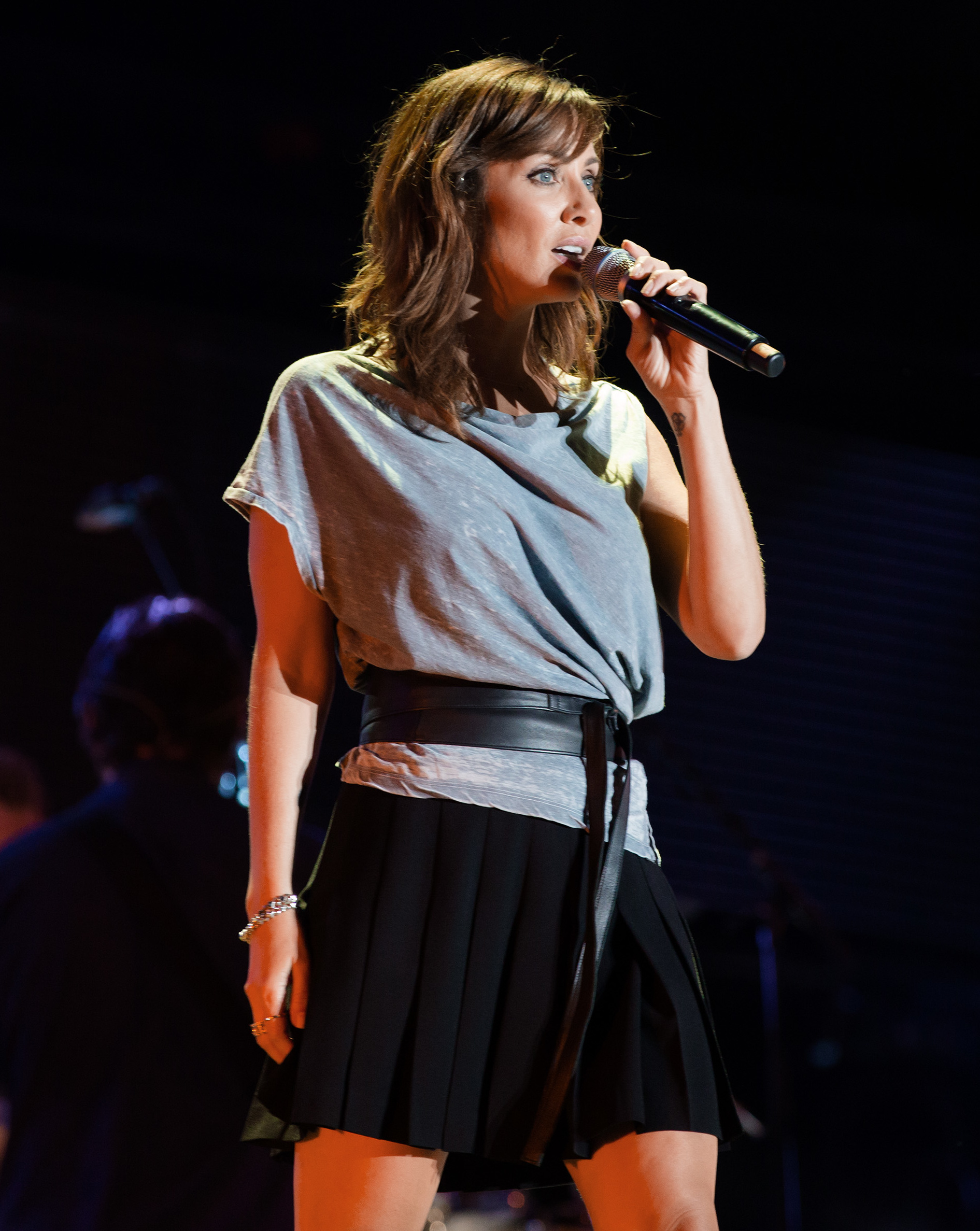 Natalie Imbruglia at Donauinselfest 2015 in Vienna, Austria